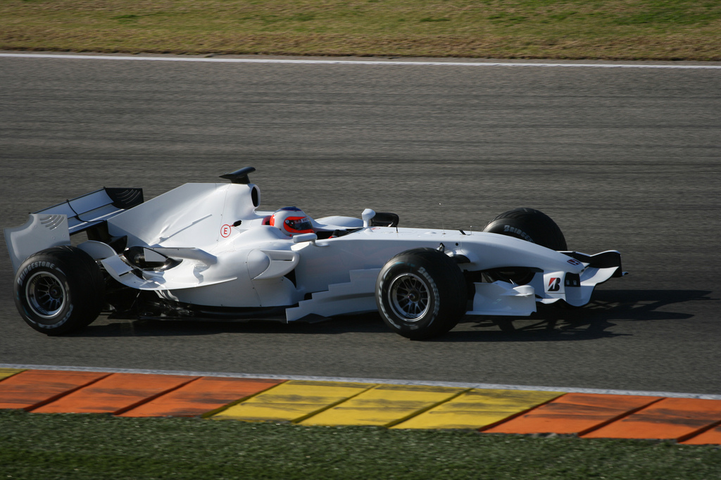 Rubens Barrichello testing the (unliveried) Honda RA108 at Valencia in January 2008.